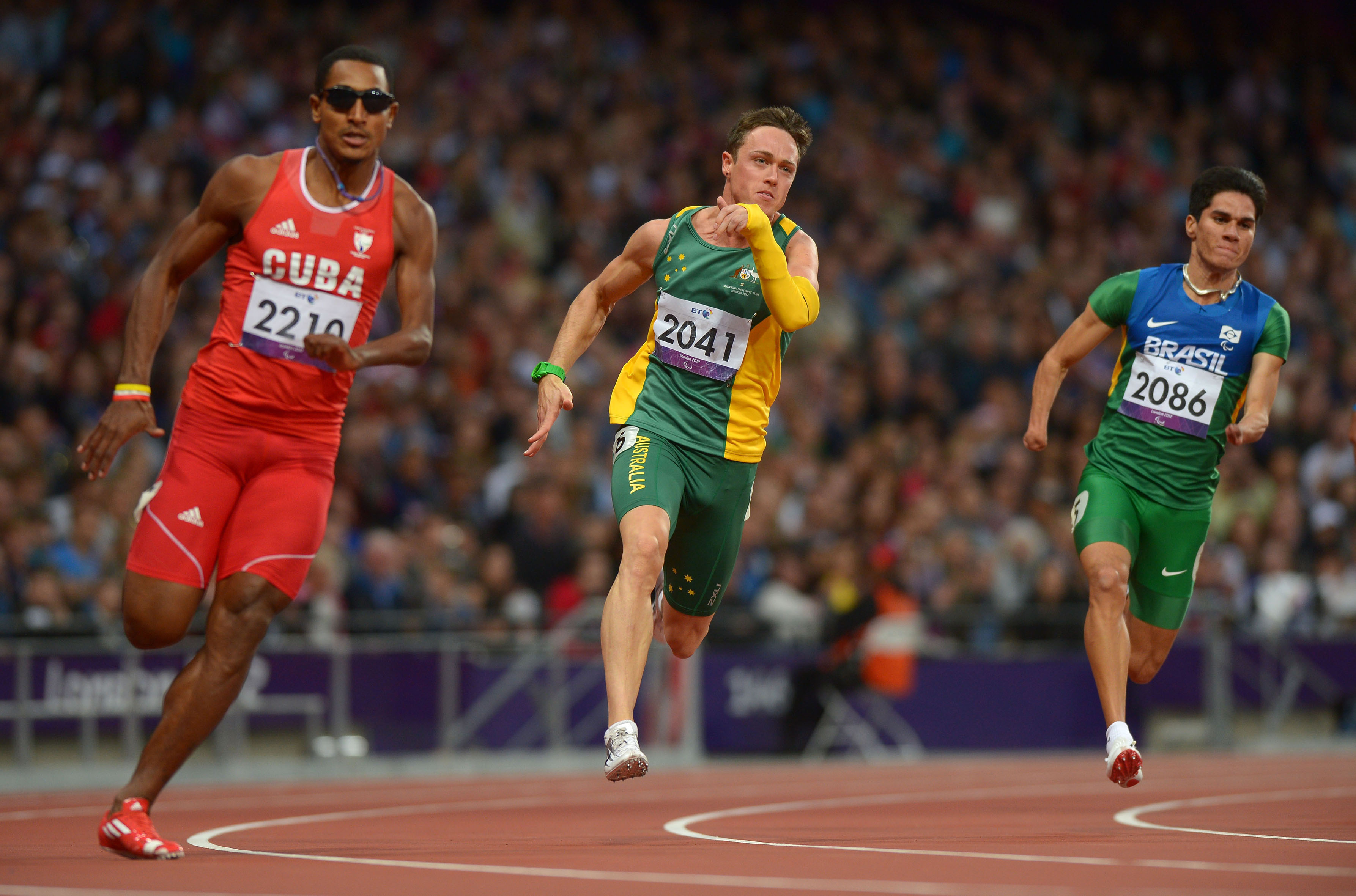 Photograph of the T46 200m final at the 2012 Summer Paralympic Games in London. From left to right are Cuba's Raciel Gonzalez Isidoria (2210), Australian Simon Patmore (2041) and Brazil's Yohansson Nascimento (2086).